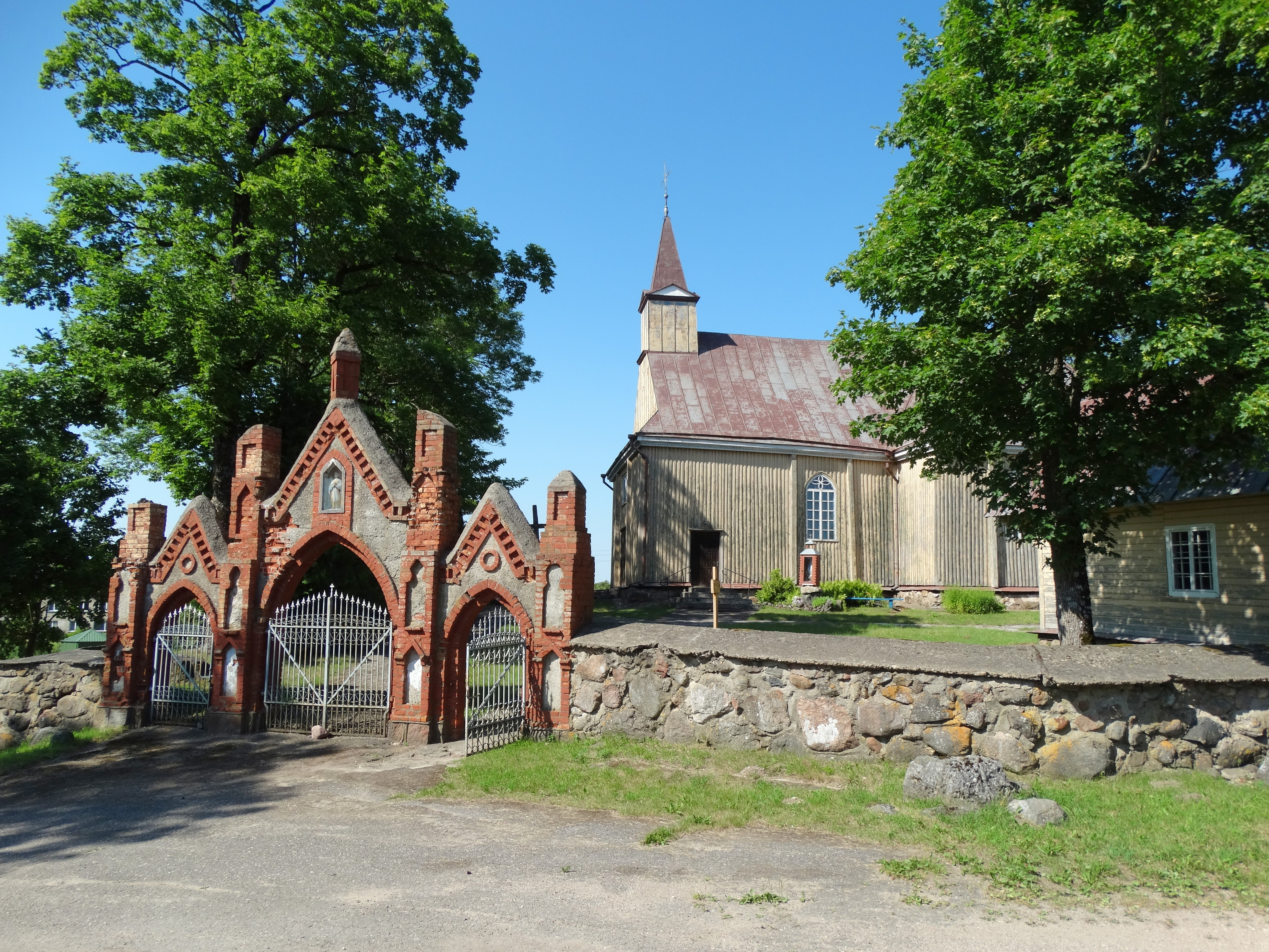 Roman Catholic Church, Kantaučiai, Plungė District, Lithuania